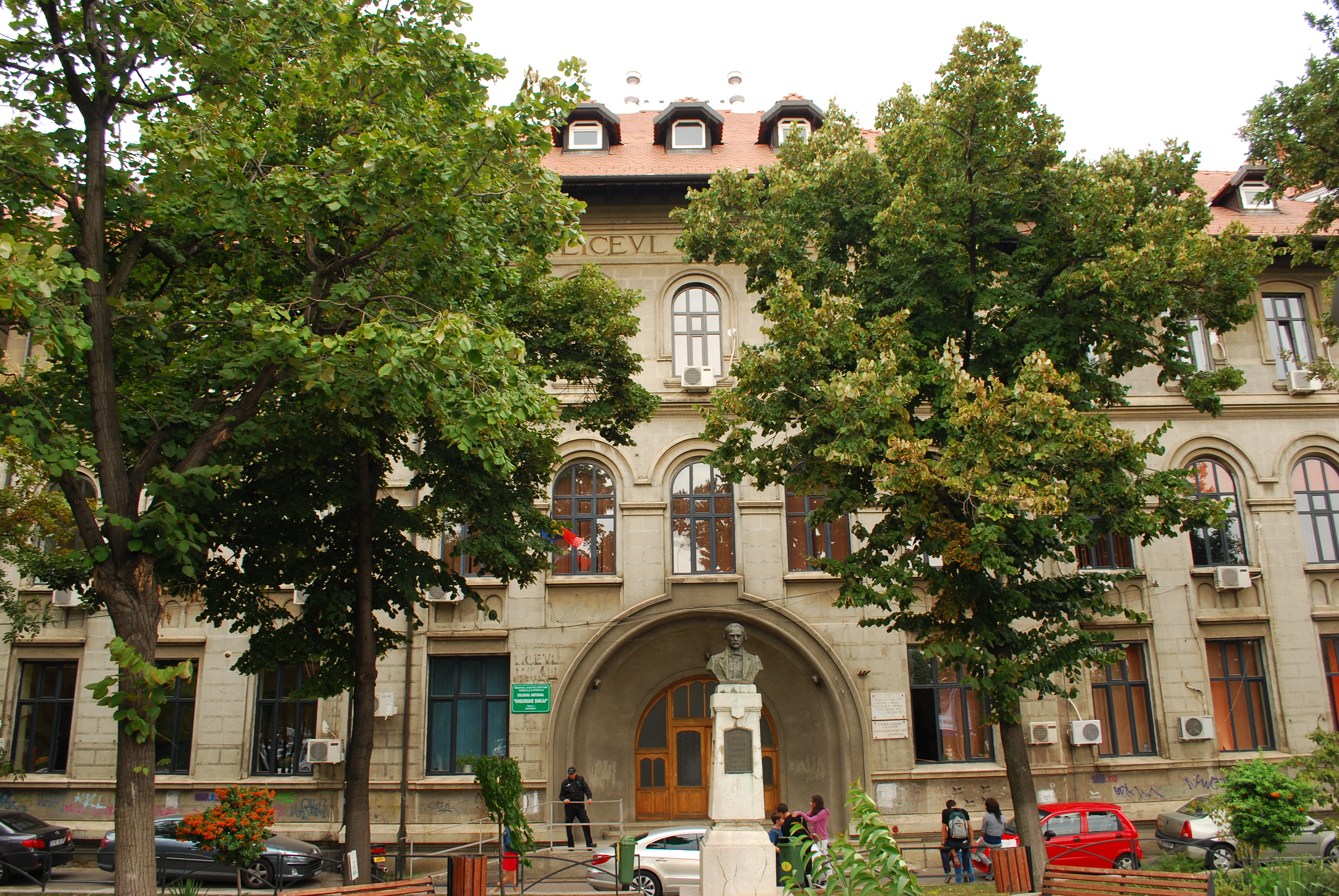 Gheorghe Şincai high school in Bucharest, Romania